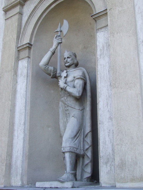 Roman Catholic Cathedral in Satu Mare, Romania